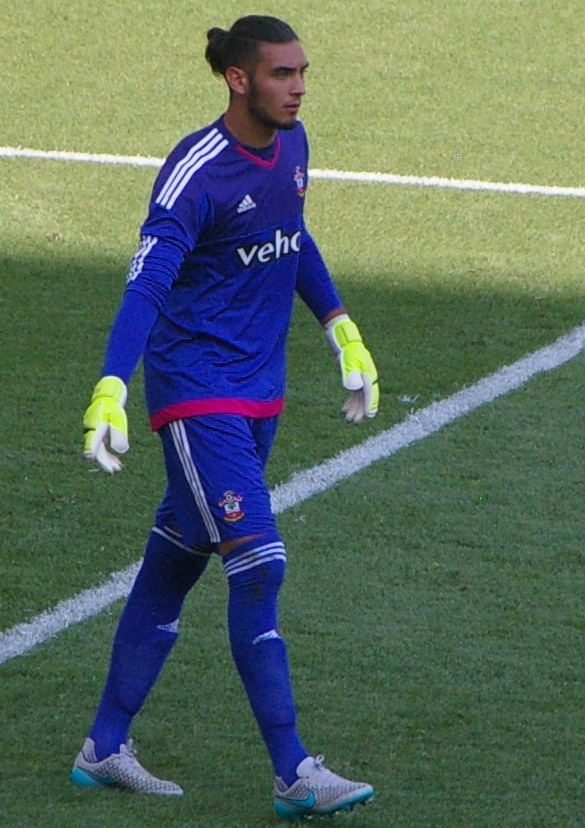 tournament with SV Werder Bremen, FC Southampton, Red Bull Salzburg and Valencia CF preseason friendly matches